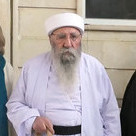 Lindborg and USIP staff meet with the spiritual leader of the Yezidis, Baba Sheikh Khurto Hajji Ismail (center), who has been helping his community heal from its tremendous suffering under ISIS, in part by welcoming home the thousands of Yezidi women and girls enslaved by the terror group. For more information about our work to promote stabilization and resilience in Iraq’s minority communities, visit